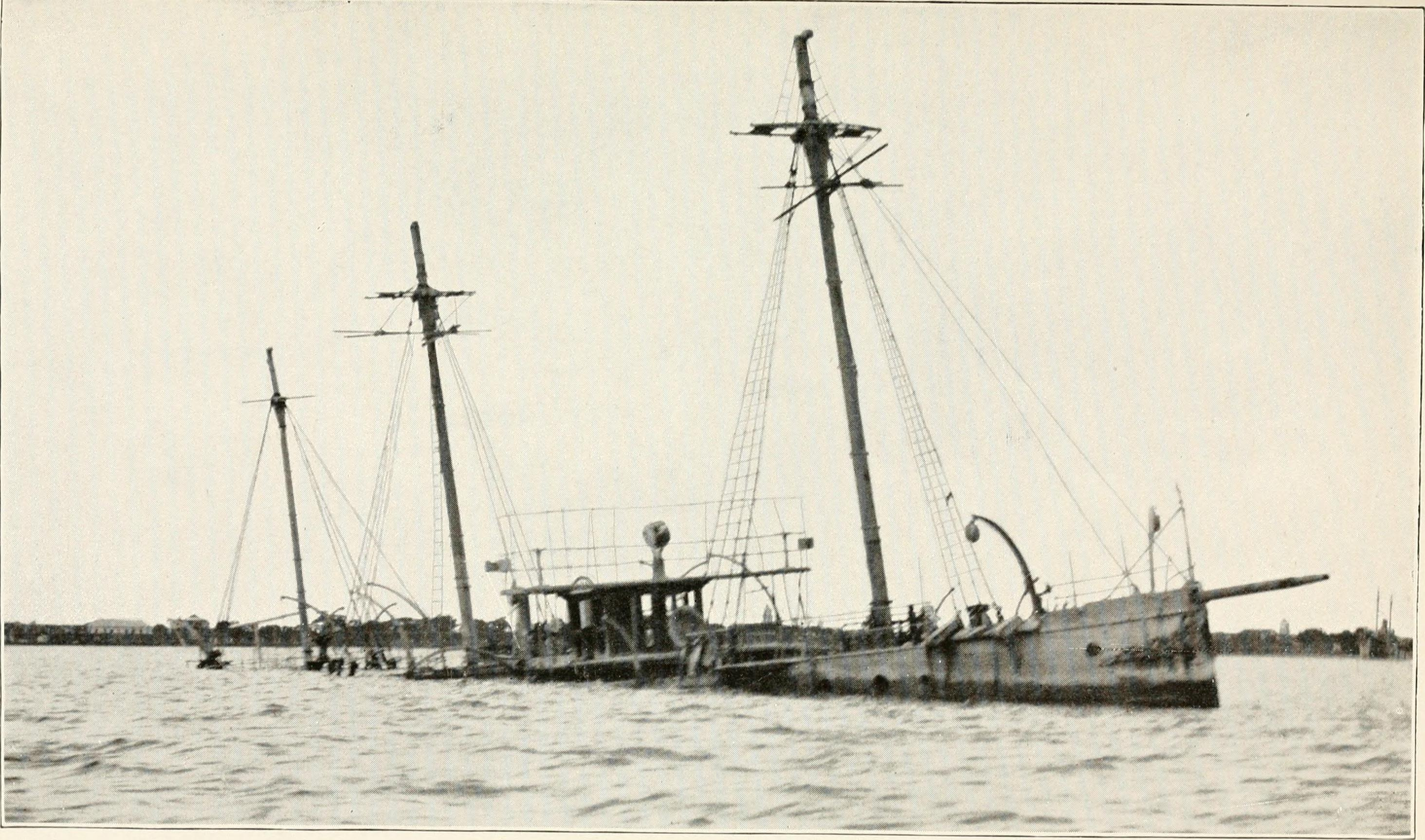 Title: The War with Spain, operations of the United States Navy on the Asiatic Station; reports of Rear-Admiral George Dewey on the Battle of Manila Bay, MAy 1, 1898, and on the investment and fall of Manila, May 1 to August 13, 1898 Year: 1900 (1900s) Authors: United States. Naval Force, Asiatic Station Dewey, George, 1837-1917 Subjects: Manila Bay, Battle of, Philippines, 1898 Manila (Philippines) -- Siege, 1898 Publisher: Washington, Govt. Print. Off. Text Appearing Before Image: ' Text Appearing After Image: '